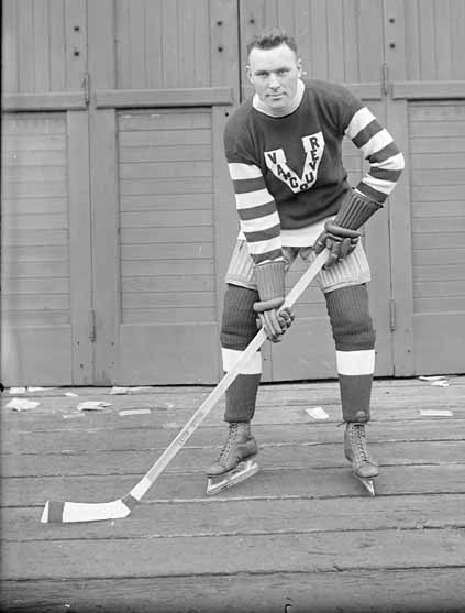 Art Duncan, from a series of pictures of the 1918–19 Vancouver Millionaires team.